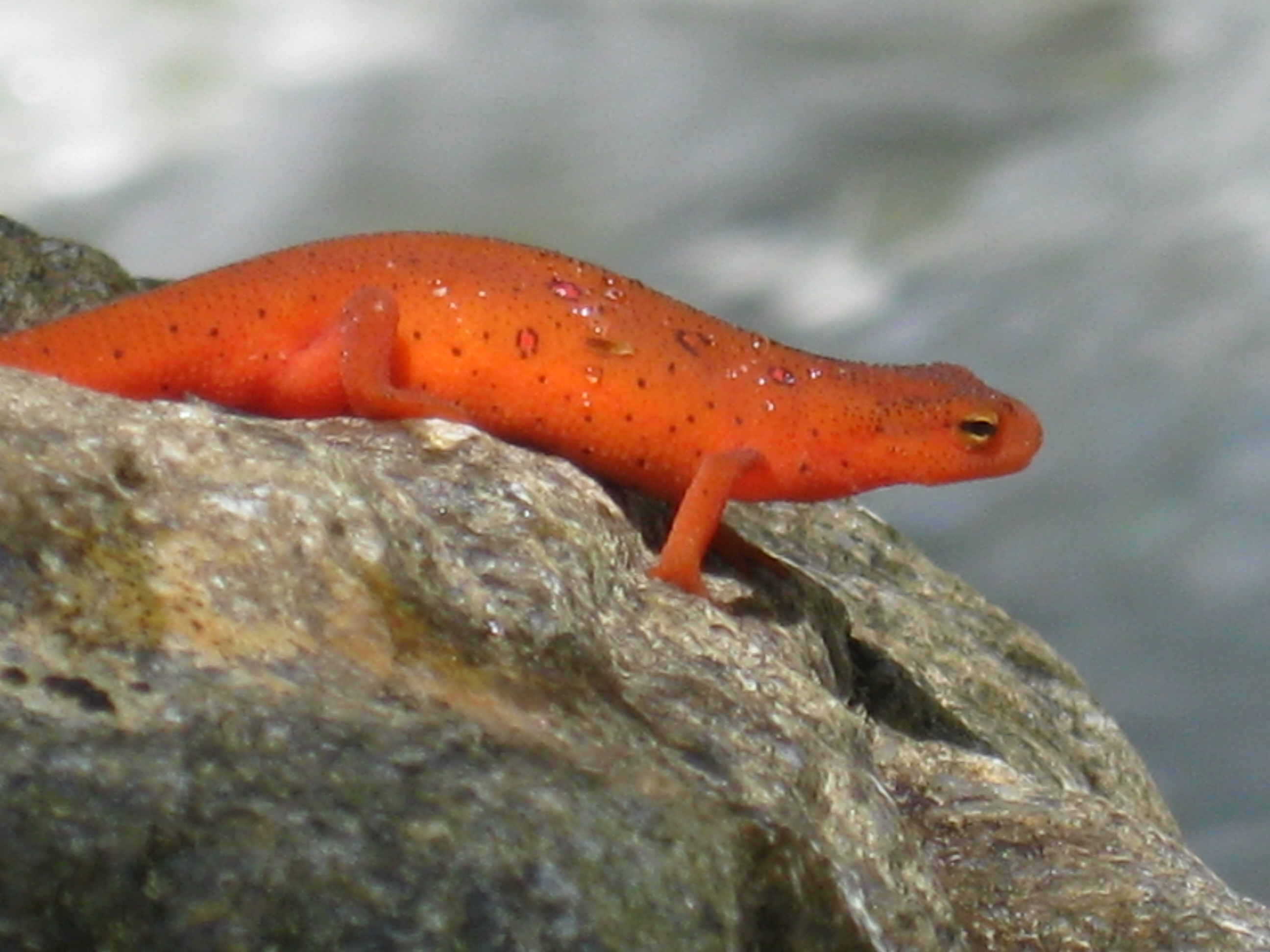 Eft form of the eastern newt (Notophthalmus viridescens) in the Cohutta Wilderness in north Georgia, United States.